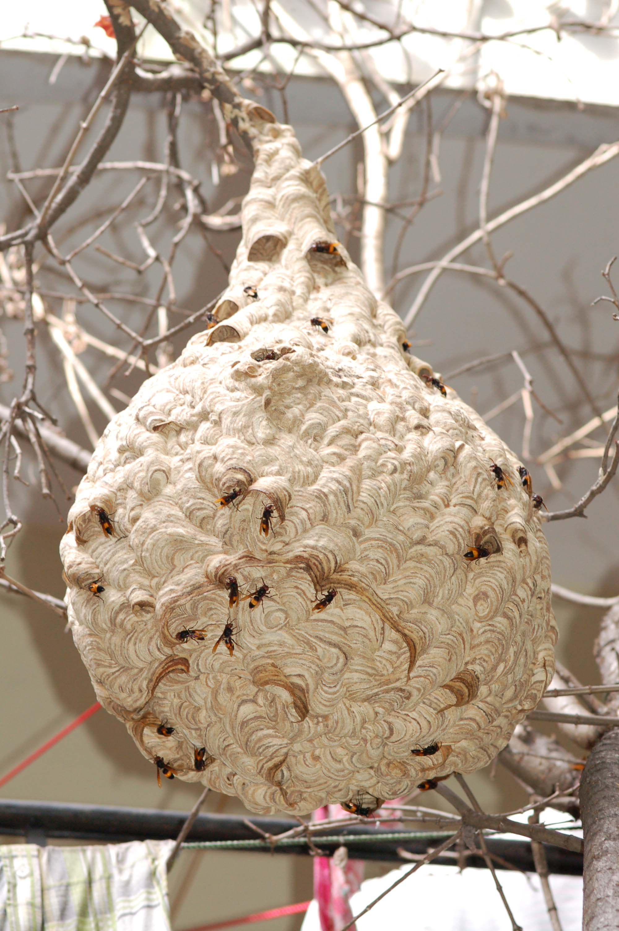 An active nest of Vespa affinis found on a dead tree